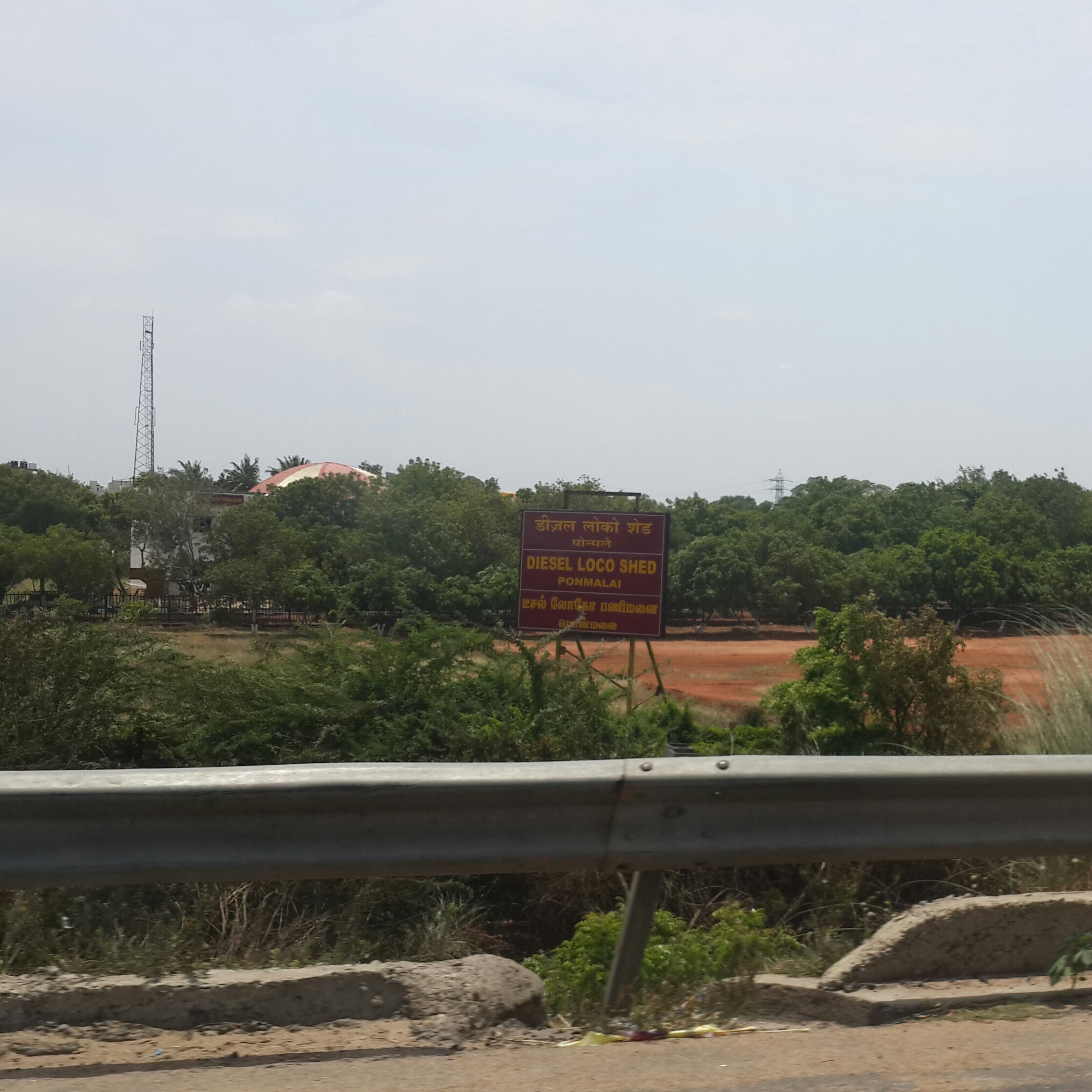 Name board of Diesel Loco Shed, Ponmalai, Trichy